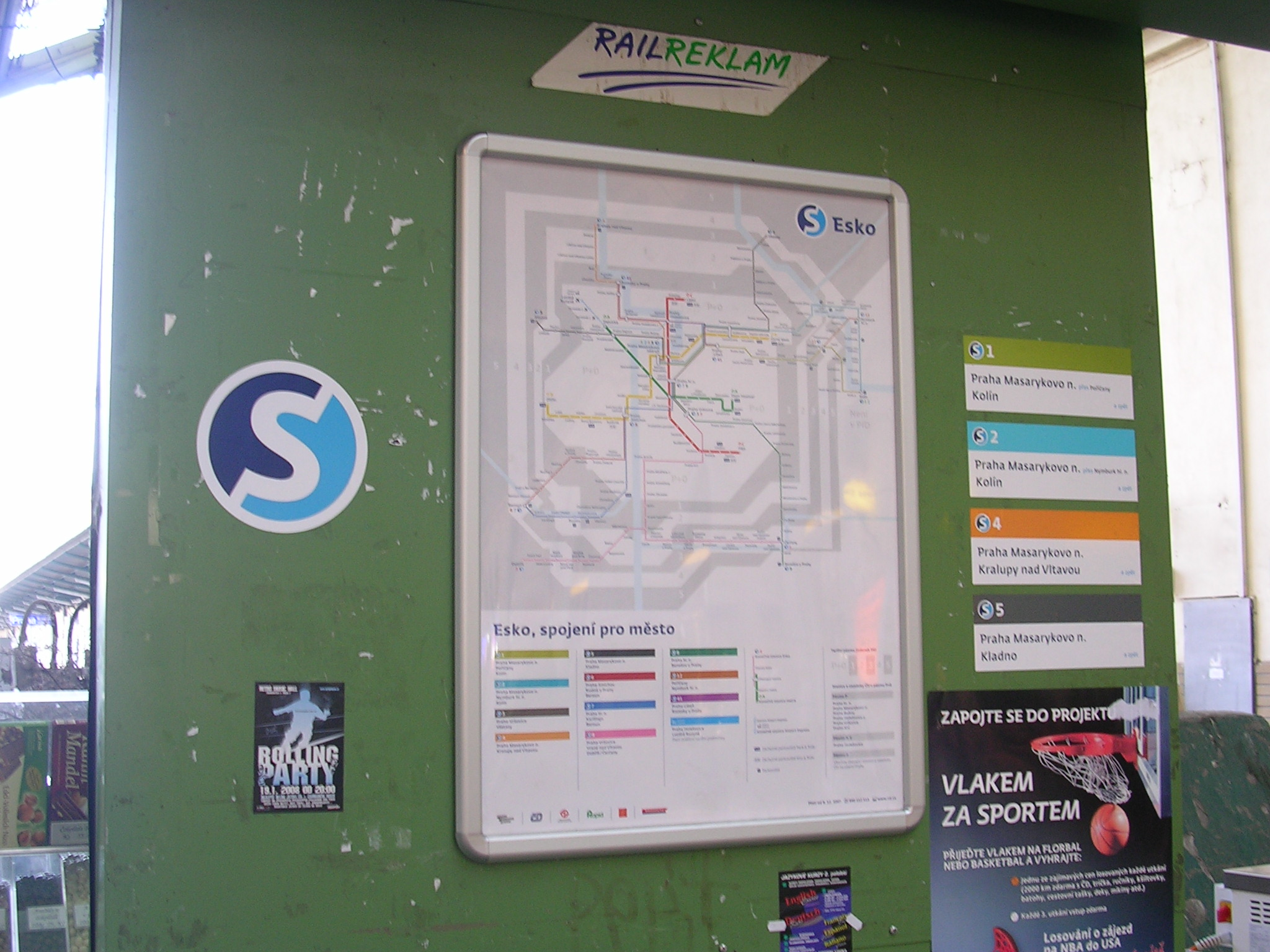 Praha Masarykovo nádraží (Masaryk's train station), Prague, the Czech Republic. Information board of suburban railroad system Esko.